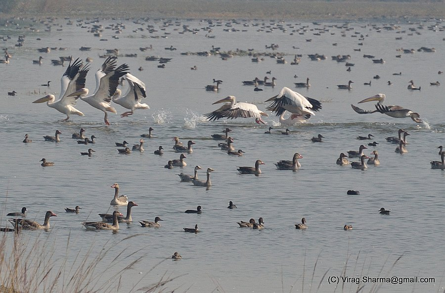 Great White Pelicans, Greylag Geese, Bar-headed Geese